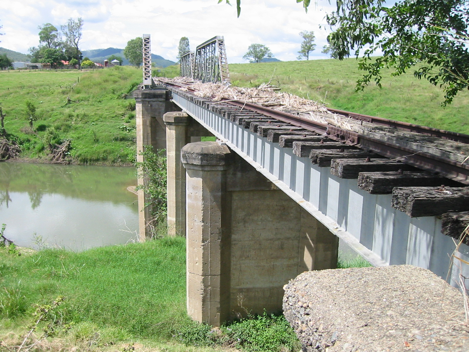 Photo of debris from the 2011 floods on the Harlin Rail Bridge taken in March 2011.